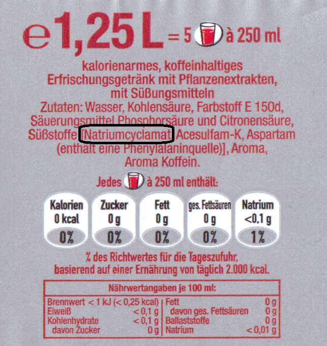 Declaration of Sodium Cyclamate